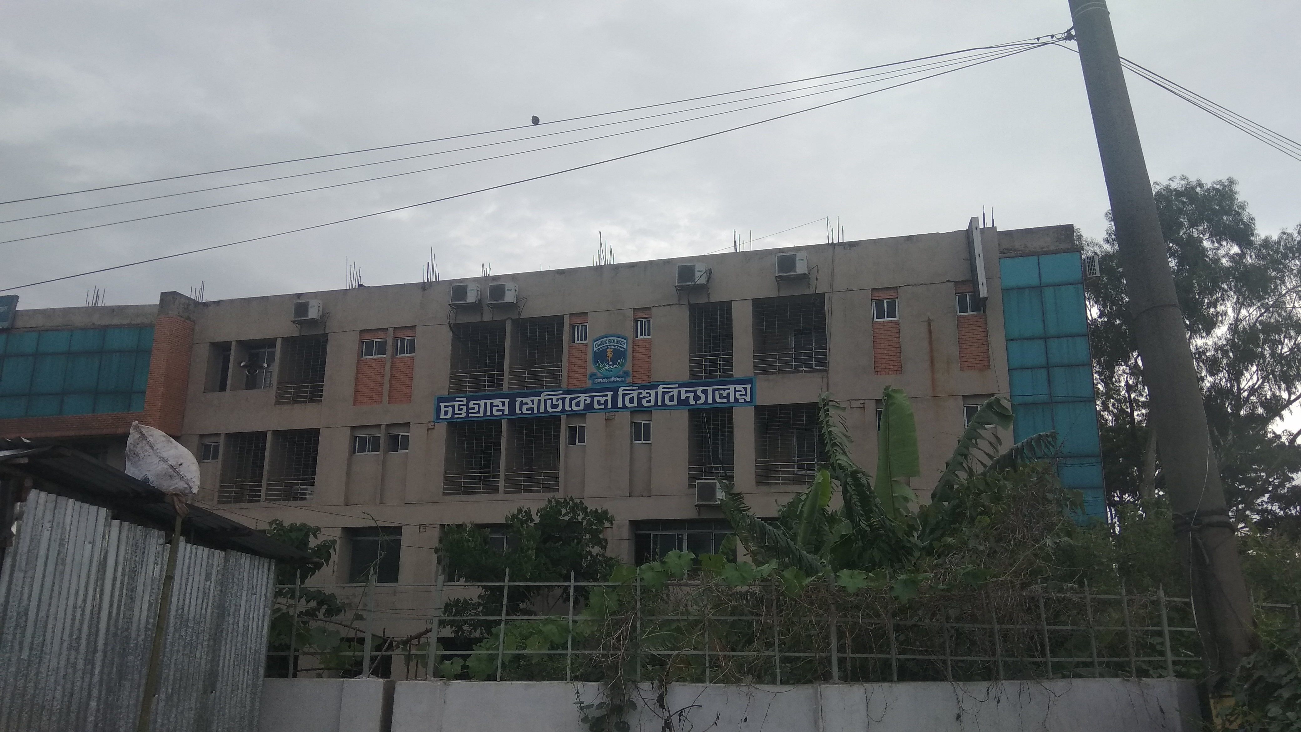 This is an image of CMU building. The sign is seen in the image.